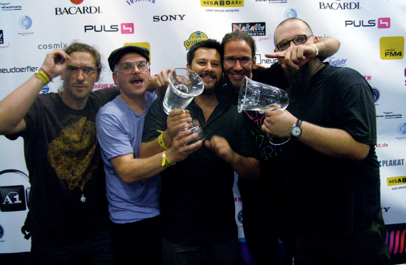 Bauchklang at the Amadeus Austrian Music Award 2010 (Wiener Stadthalle, Vienna, Austria)